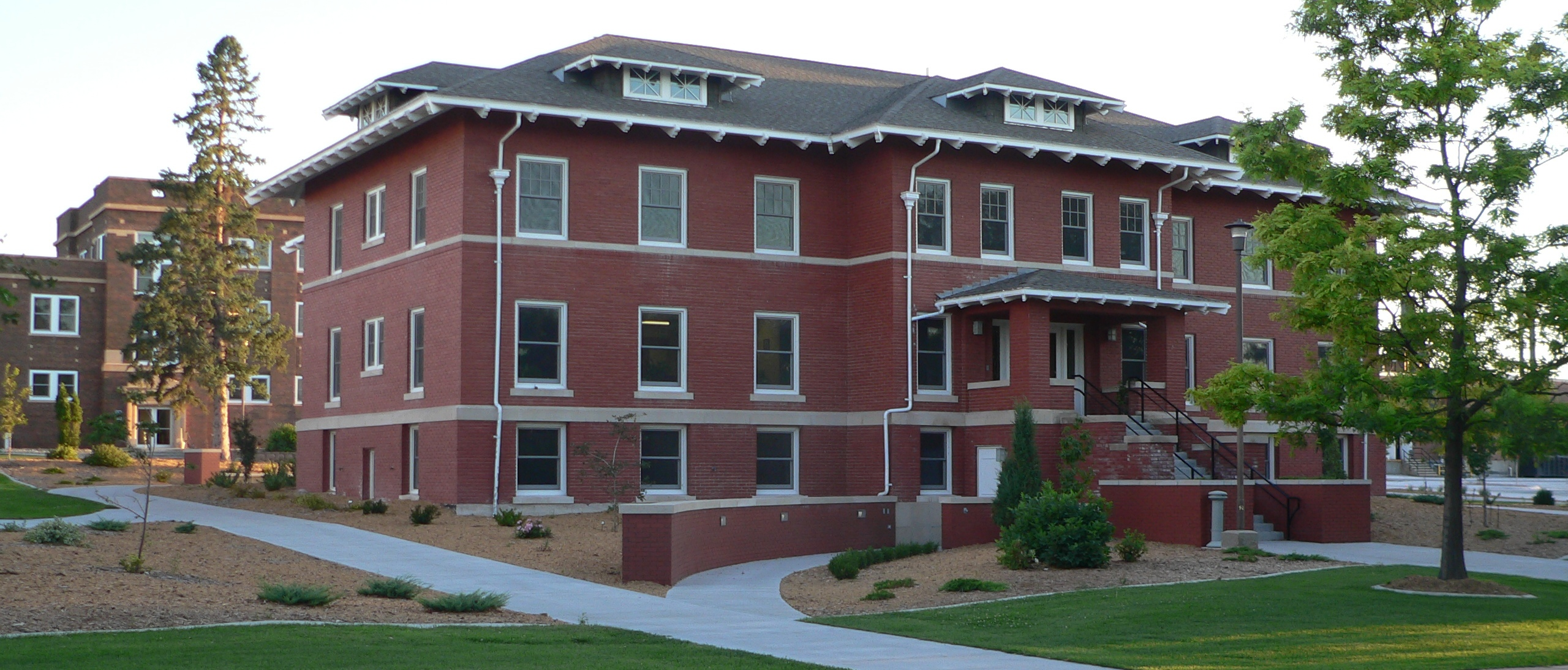 Joseph Sparks Hall, on the campus of Chadron State College in Chadron, Nebraska; seen from the northeast. The building was constructed in 1914. It is listed in the National Register of Historic Places.